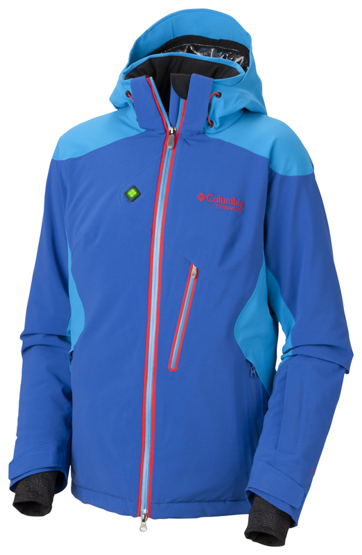 Columbia Sportswear Jacket